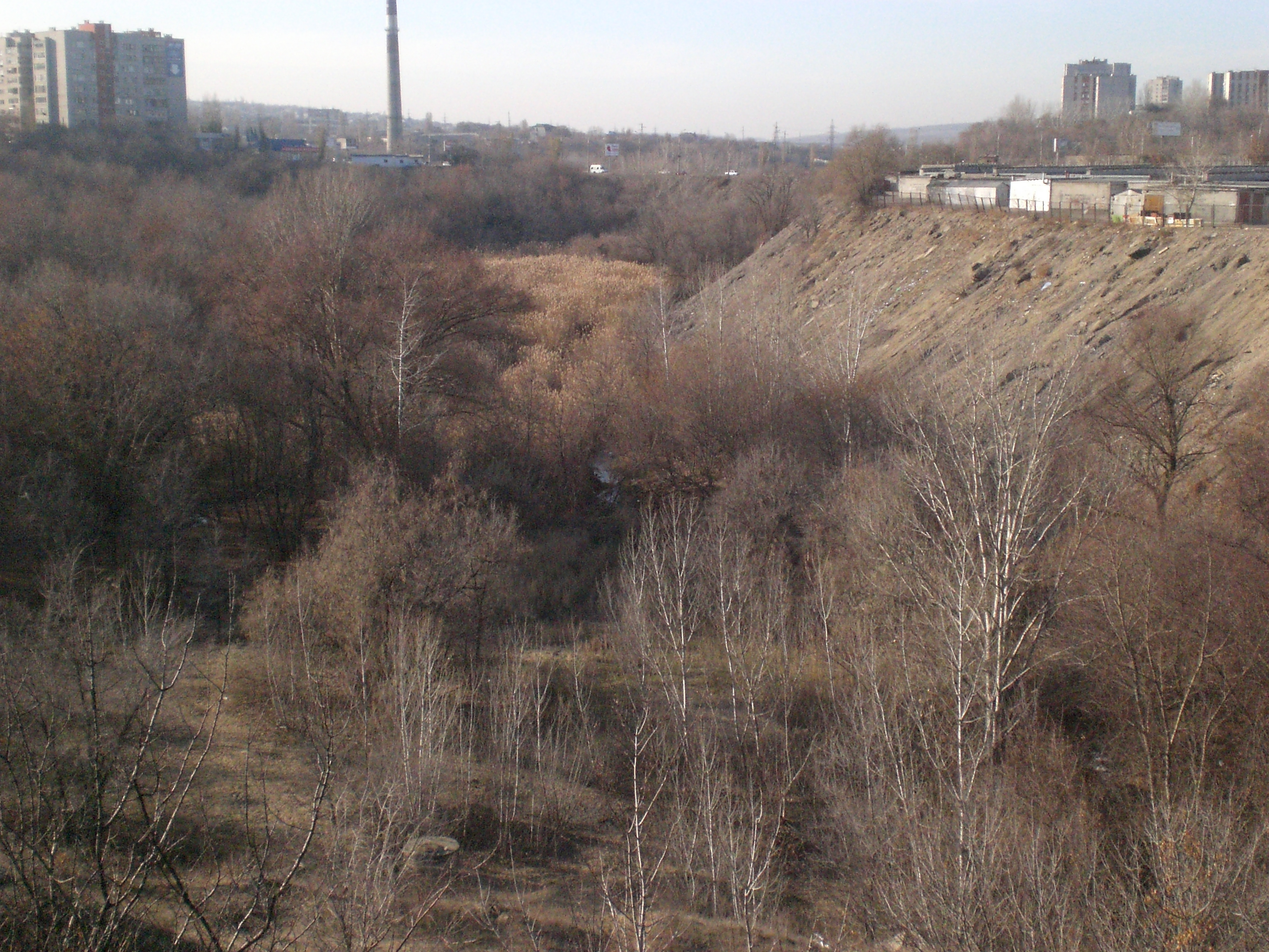 Ravine of Tsaritsa river in Volgograd. Russia.